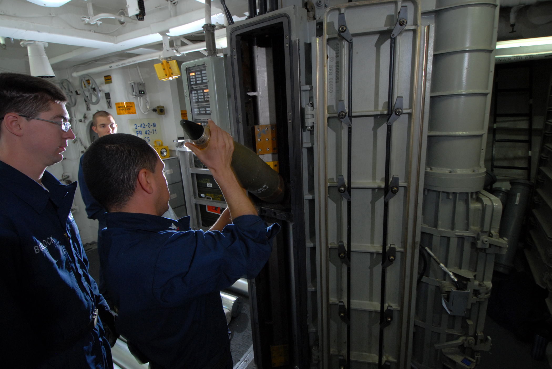 ATLANTIC OCEAN (Oct. 13, 2009) Sailors load 70-pound shells into the 5-inch/54-caliber (Mk 45) lightweight gun aboard the guided-missile destroyer USS Cole (DDG 67). Cole is participating in Exercise Joint Warrior 09-2, a United Kingdom-led, multinational exercise designed to improve interoperability between allied navies as well as to prepare for a role in combined operations during upcoming deployments. (U.S. Navy photo by Mass Communication Specialist 3rd Class Matthew Bookwalter/Released)